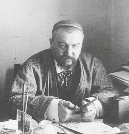 Russian writer Alexandre Kouprine in private office. Gatchina, Russian Empire